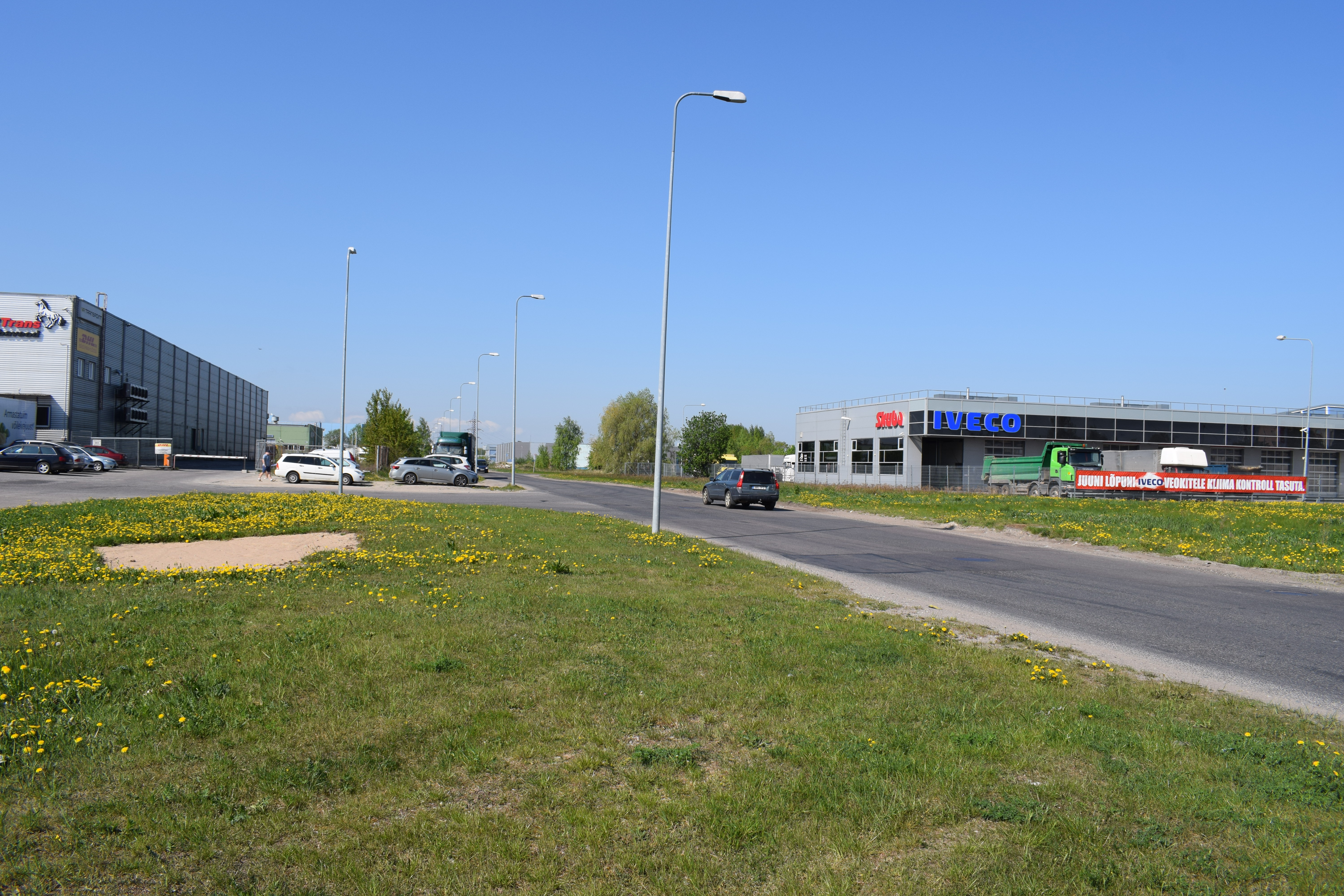 Tala street